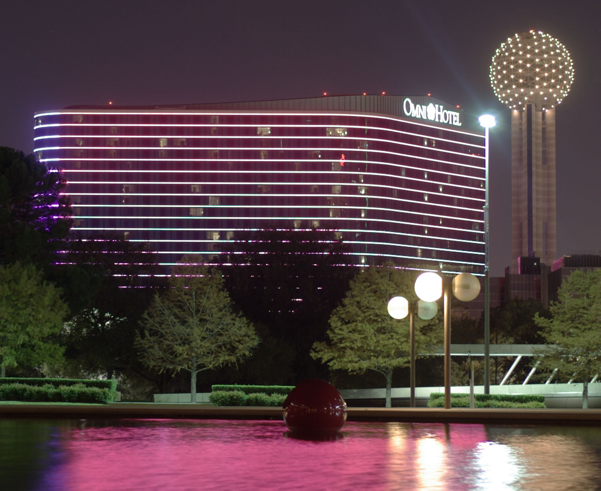 Omni Dallas Hotel as viewed from city hall.